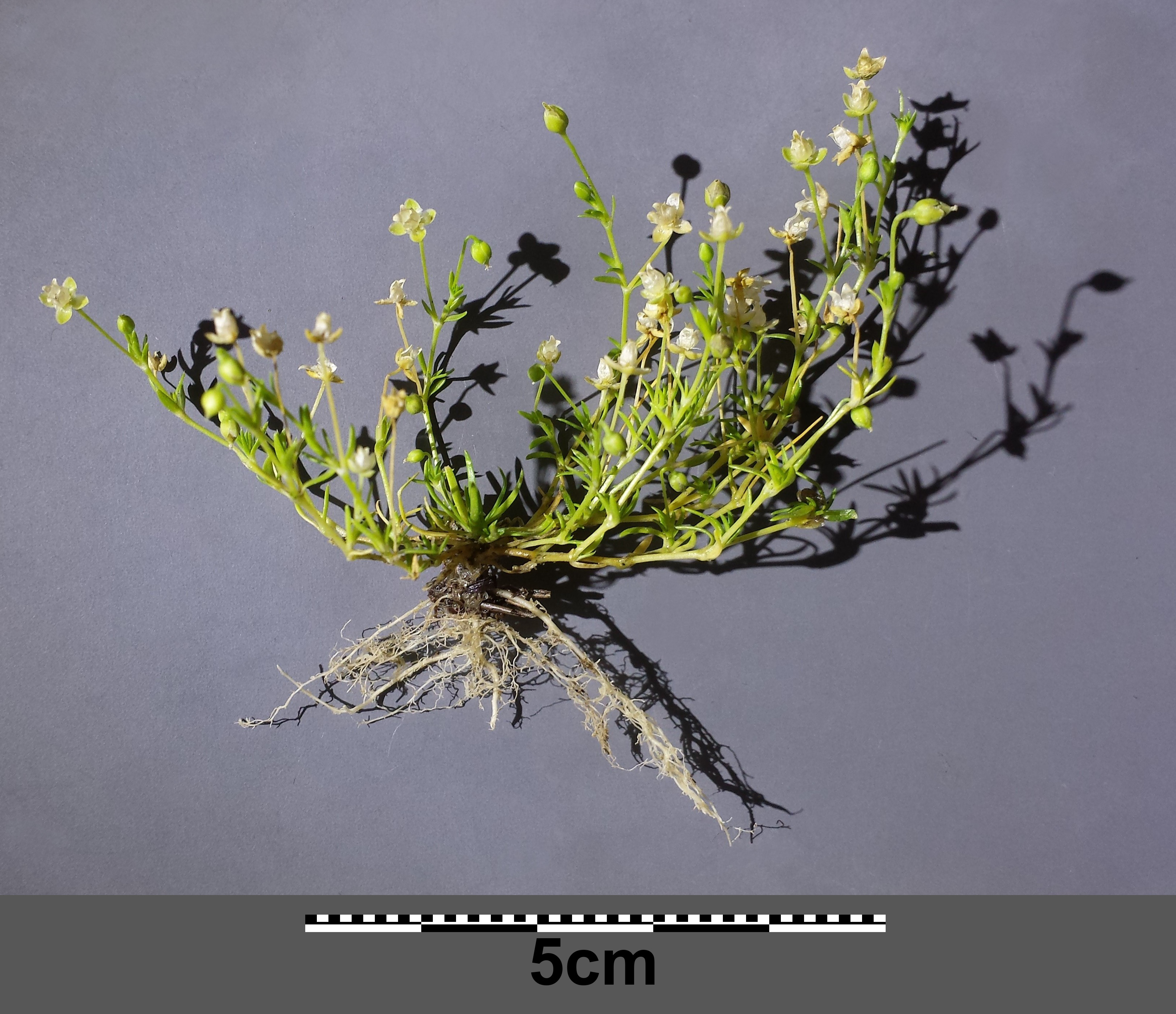 Whole Plant Taxonym: Sagina procumbens ss Fischer et al. EfÖLS 2008 ISBN 978-3-85474-187-9 Location: Rosenburg, district Horn, Lower Austria - ca. 260 m a.s.l. Habitat: gap in road surface